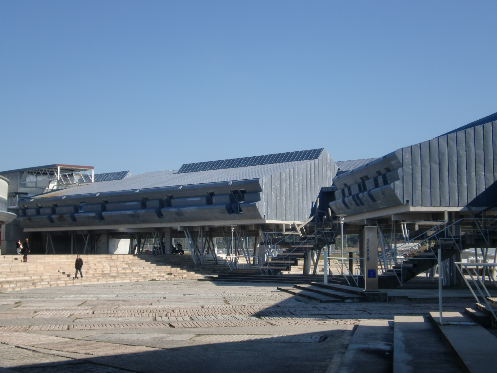 Miralles building. University of VigoGalego: Edificio Miralles. Universidade de Vigo